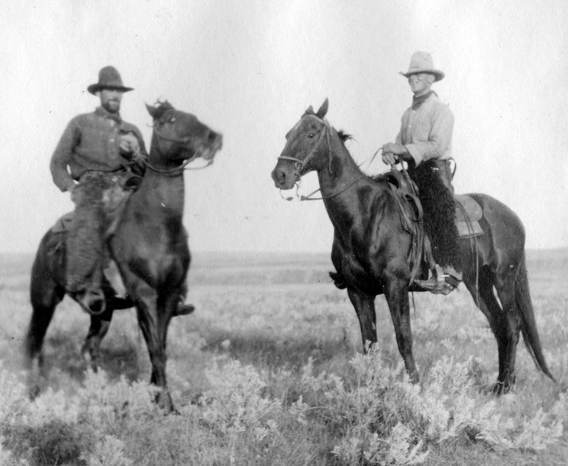 Cowboys of the Grant-Kohrs Ranch, Montana — around 1910.